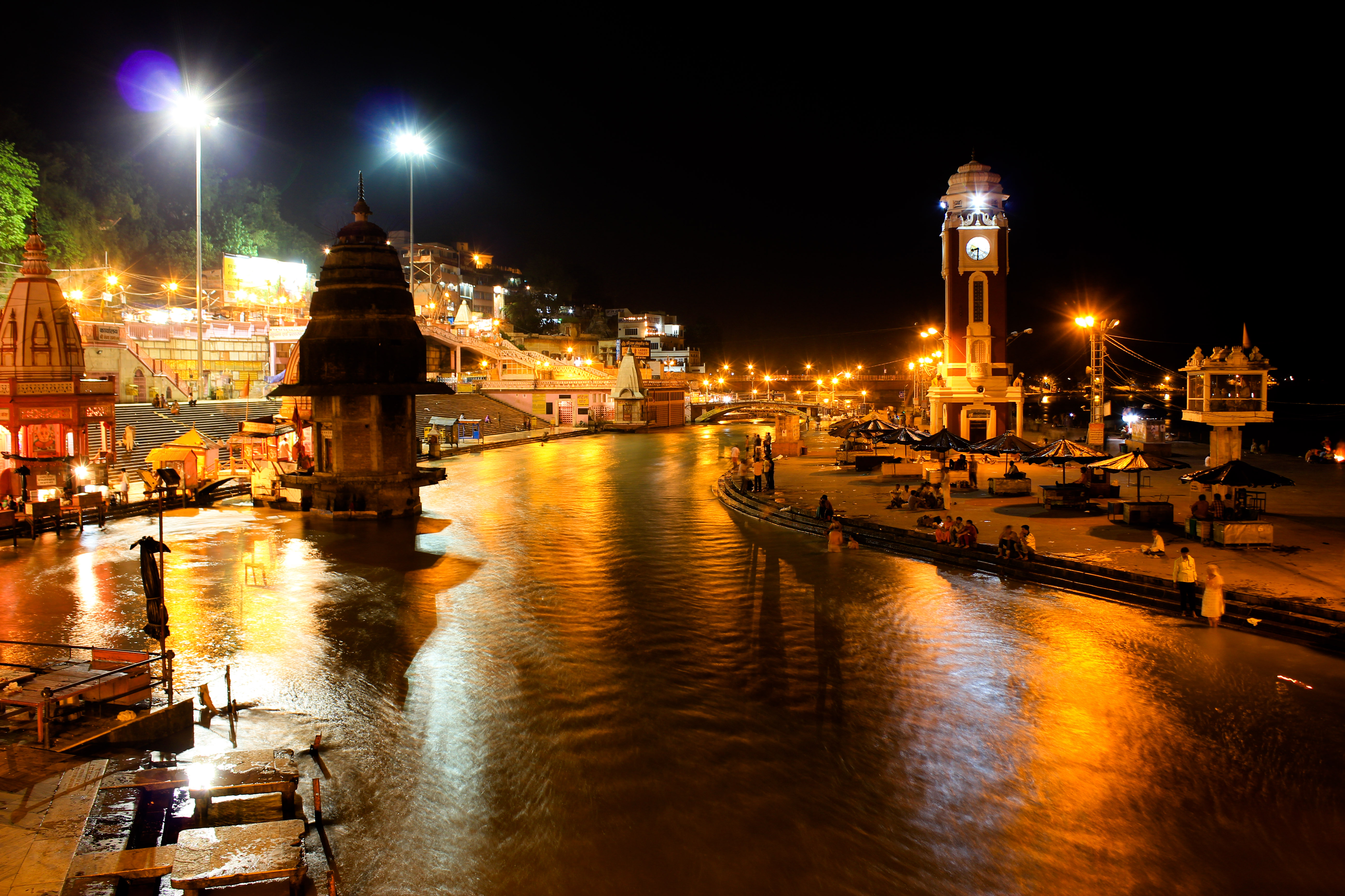 This image is of the river Ganges at Haridwar, Uttarakhand, India.